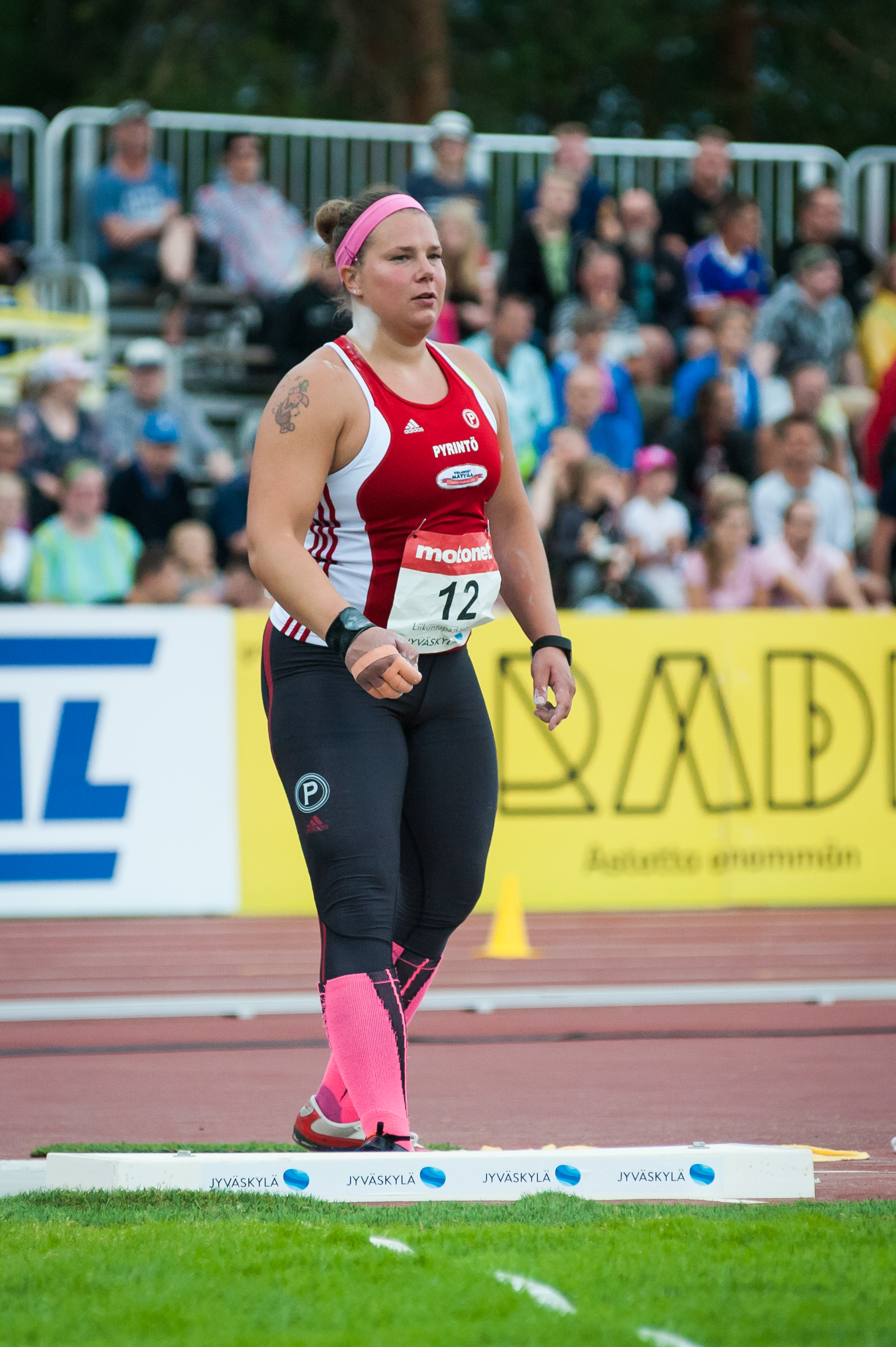 Women's shot put competition at the 2018 Kalevan Kisat, the Finnish championships in athletics, in Jyväskylä, Finland.